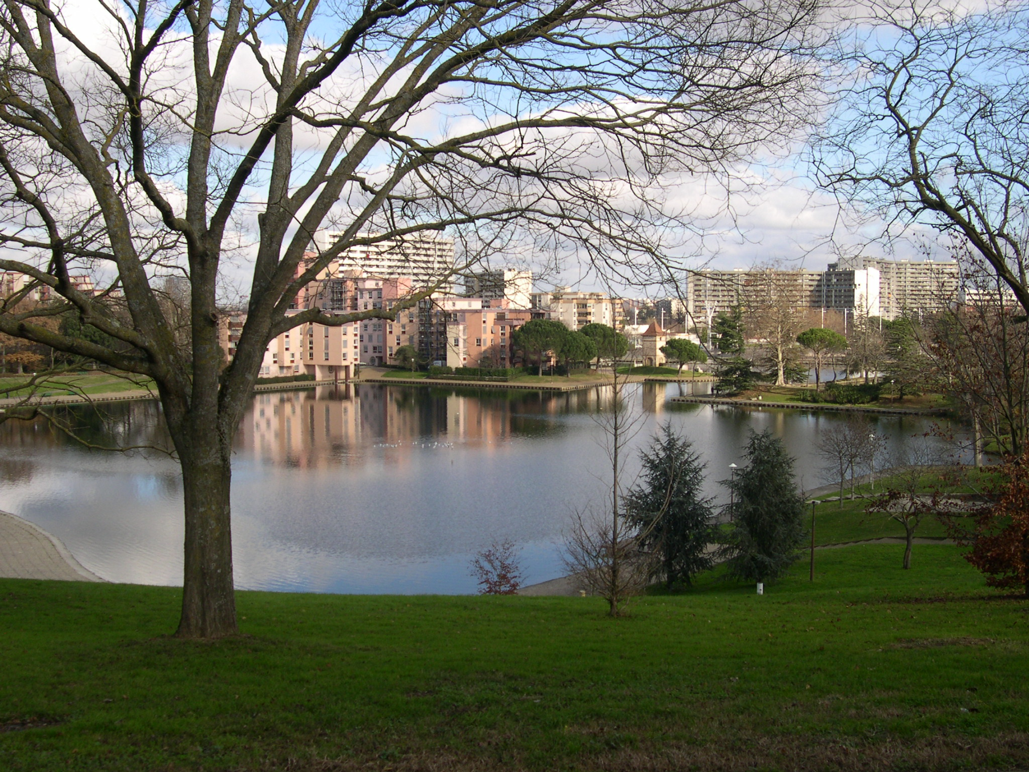 Reynerie district in Toulouse.